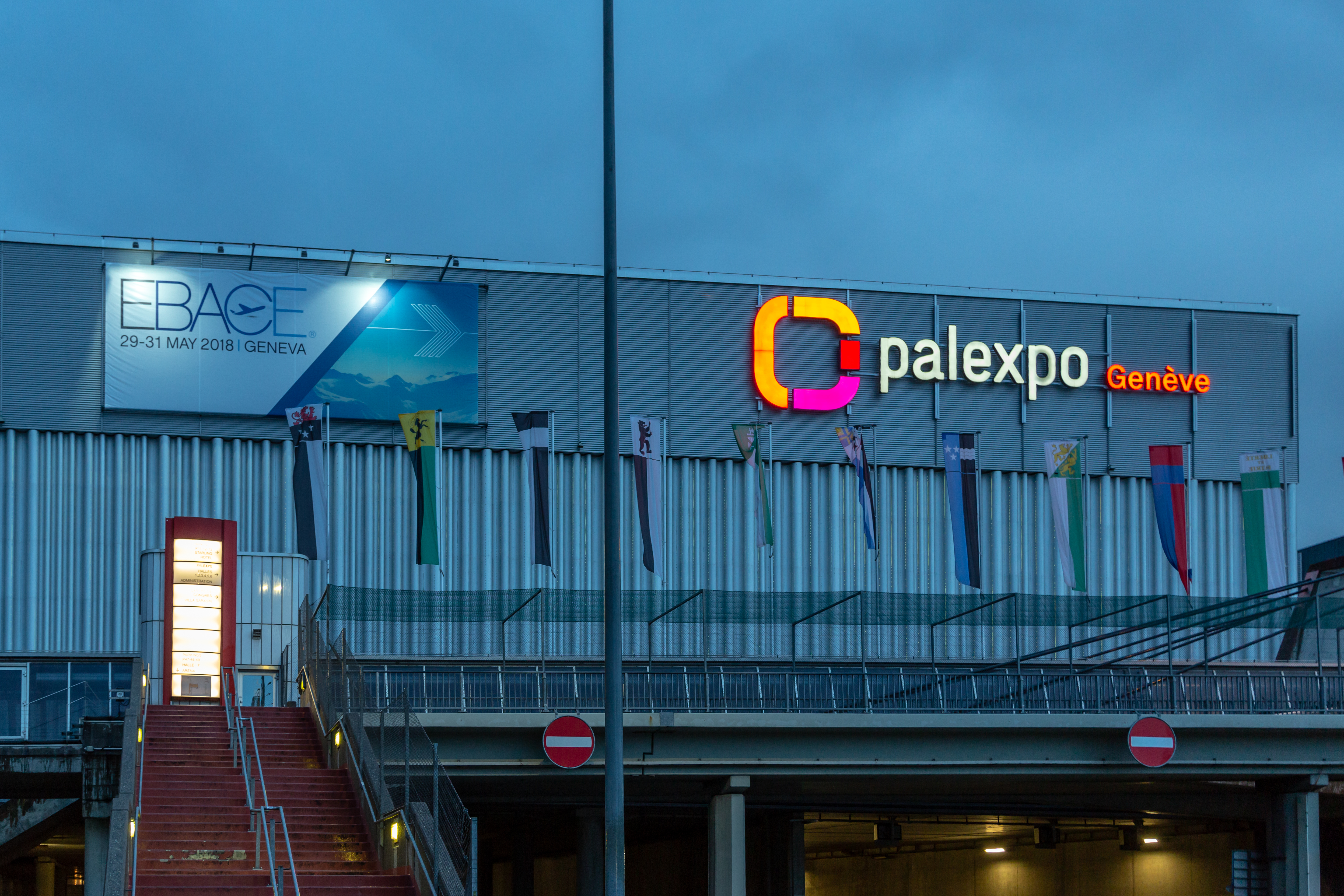 European Business Aviation Conference & Exhibition 2018